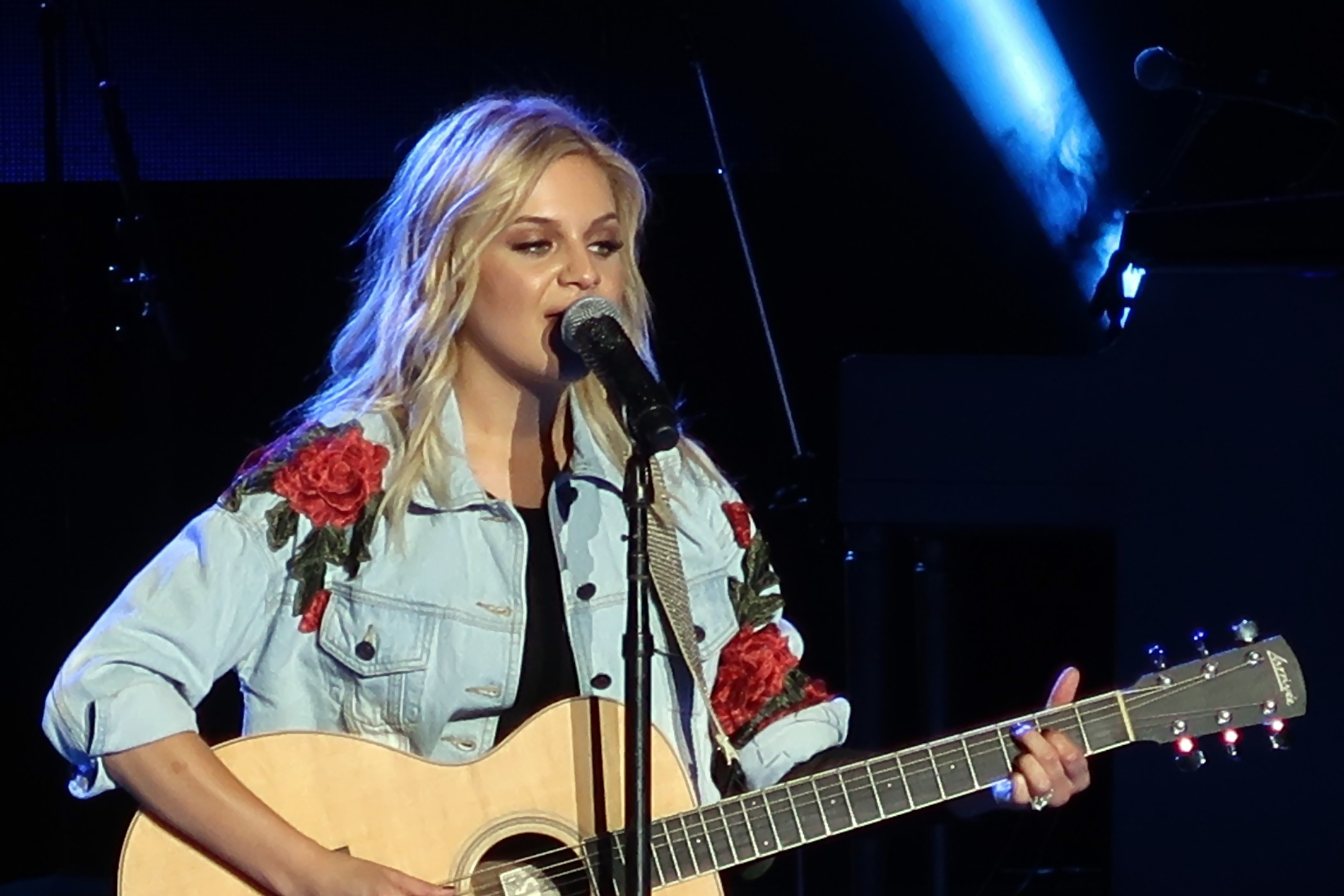 Kelsea Ballerini opening for Lady Antebellum in their You Look Good Tour in September 2017